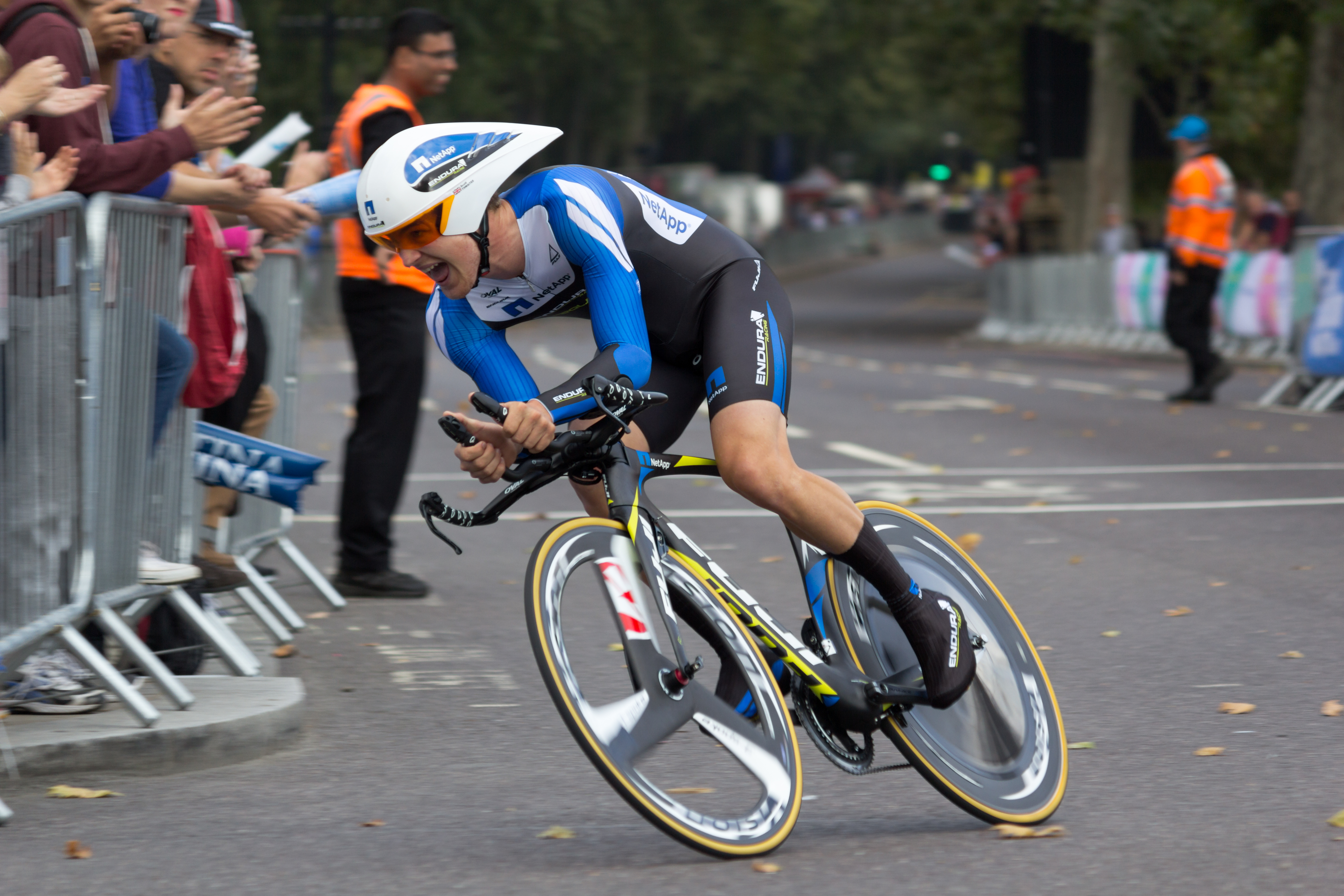 Tour of Britain 2014 stage 8a - London time trial